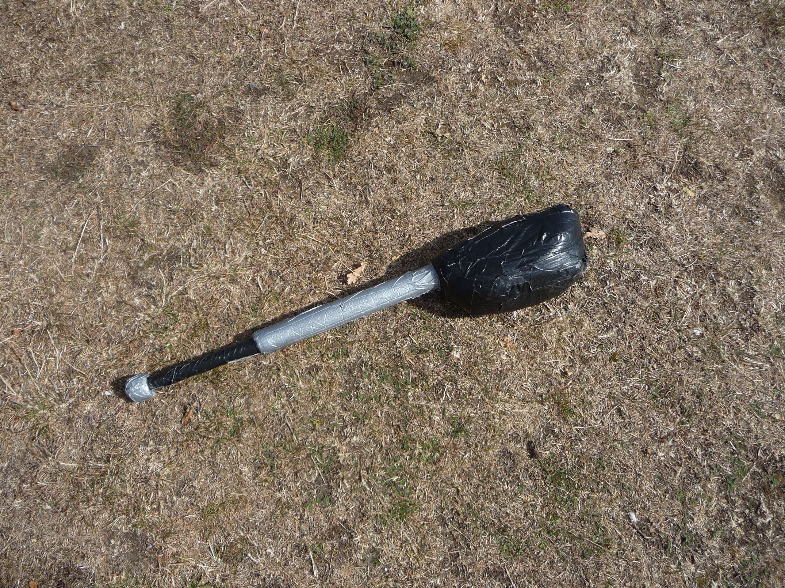 Simple LARP weapon